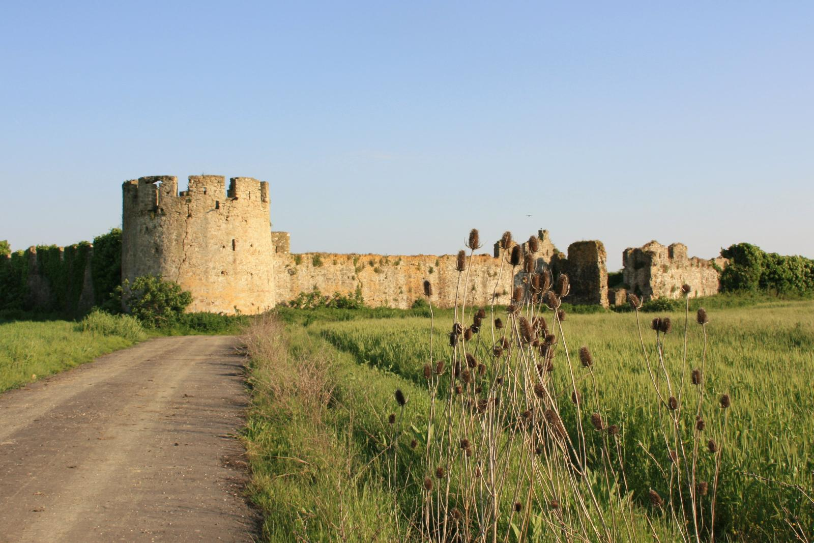 Castle of Bashtovë